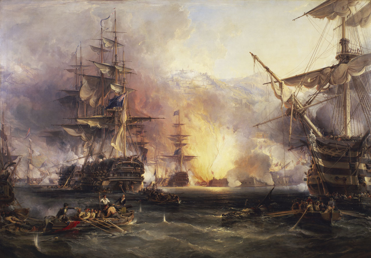 In the foreground of the painting is a barge with a howitzer in the bows and a lieutenant standing at her tiller. To the left of her are two boats, one sunk and the other with sailors rescuing the crew. In the right foreground is a fallen spar and another barge with a carronade in her bow. Beyond her more boats are sheltering under the 'Impregnable', 98 guns, the fore part of whose bow is in the picture. In the left middle distance there are three more boats under the stern of the 'Minden', 74 guns, one of which is about to fire a Congreve rocket. The 'Minden', in port-quarter view, is firing her starboard guns, and partly masks the 'Superb' also in port-quarter view. More boats are sheltering under the port side of their hulls. In the left background can be seen the forepart of the Dutch flagship 'Melampus', 40 guns, in starboard-broadside view and ahead of her the stern of a British frigate. In the middle and right background is the 'Queen Charlotte', 100 guns, in port-quarter view, flying Pellew's blue admiral's flag at the main, and a glimpse of the 'Leander', 50 guns, ahead of her. They are engaged with the batteries of the harbour, engulfed in flame, and the ships burning within it. Above the smoke Algiers can be seen rising up the hills behind.